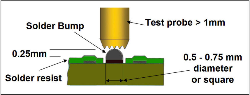 Diagram of the Waygood Bump Technique